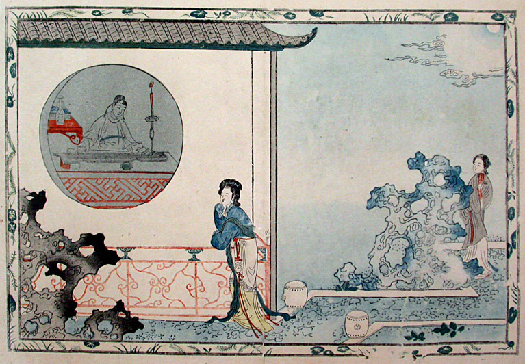 Zhang Junrui’s noctural music-making, from Min Qiji’s album „The Romance of the Western Chamber“, multi-colored woodblock printing